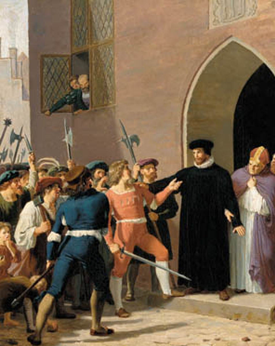 In 1836, on the celebration of 300 years of protestant religion in Denmark, the Kunstforeningen (Art Association) of Copenhagen asked the artists to make paintings, chosen from three different scenes related to the event. Müller tried his hand at all three, and this is one of them.